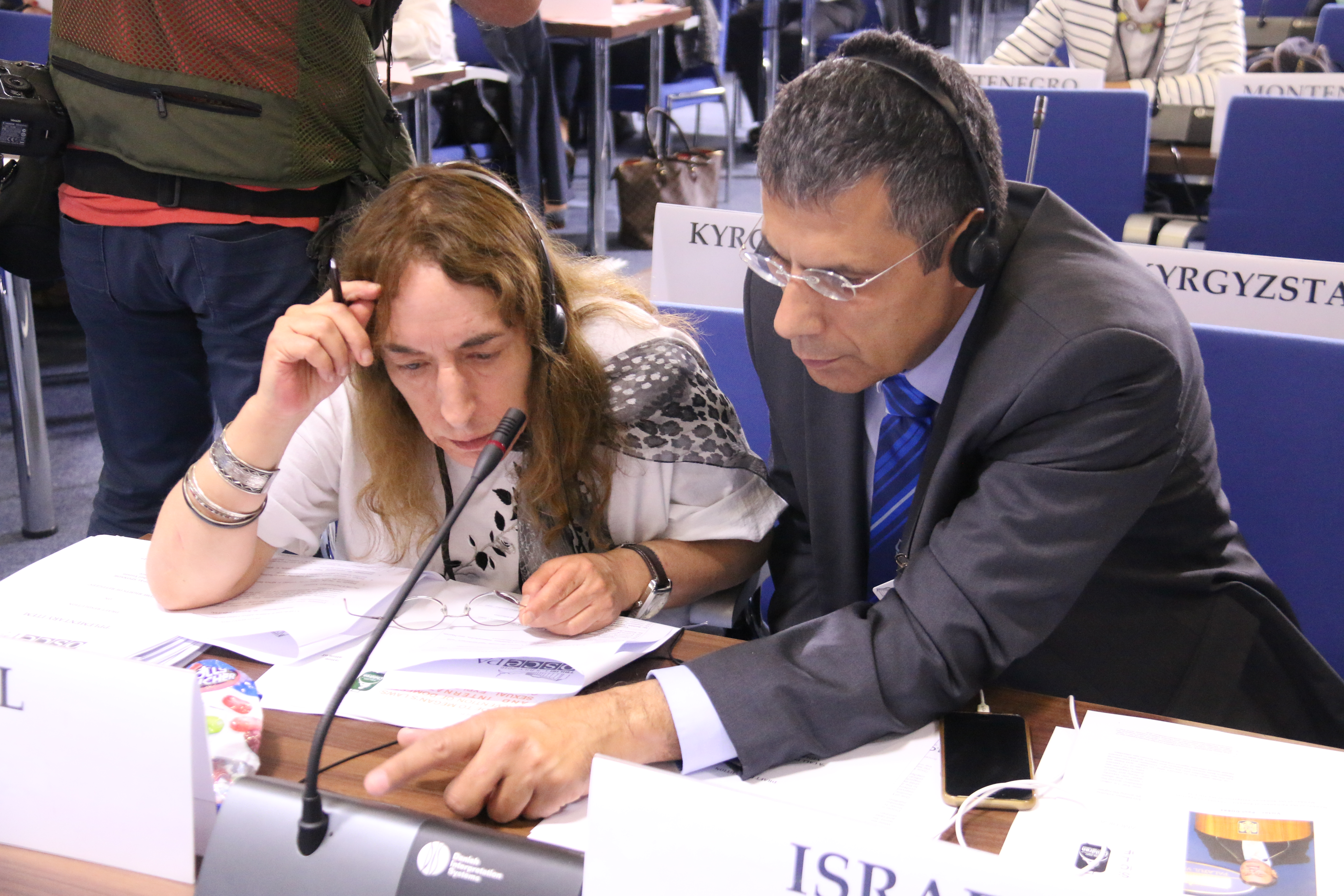 Members of the Delegation of Israel, 4 July 2016